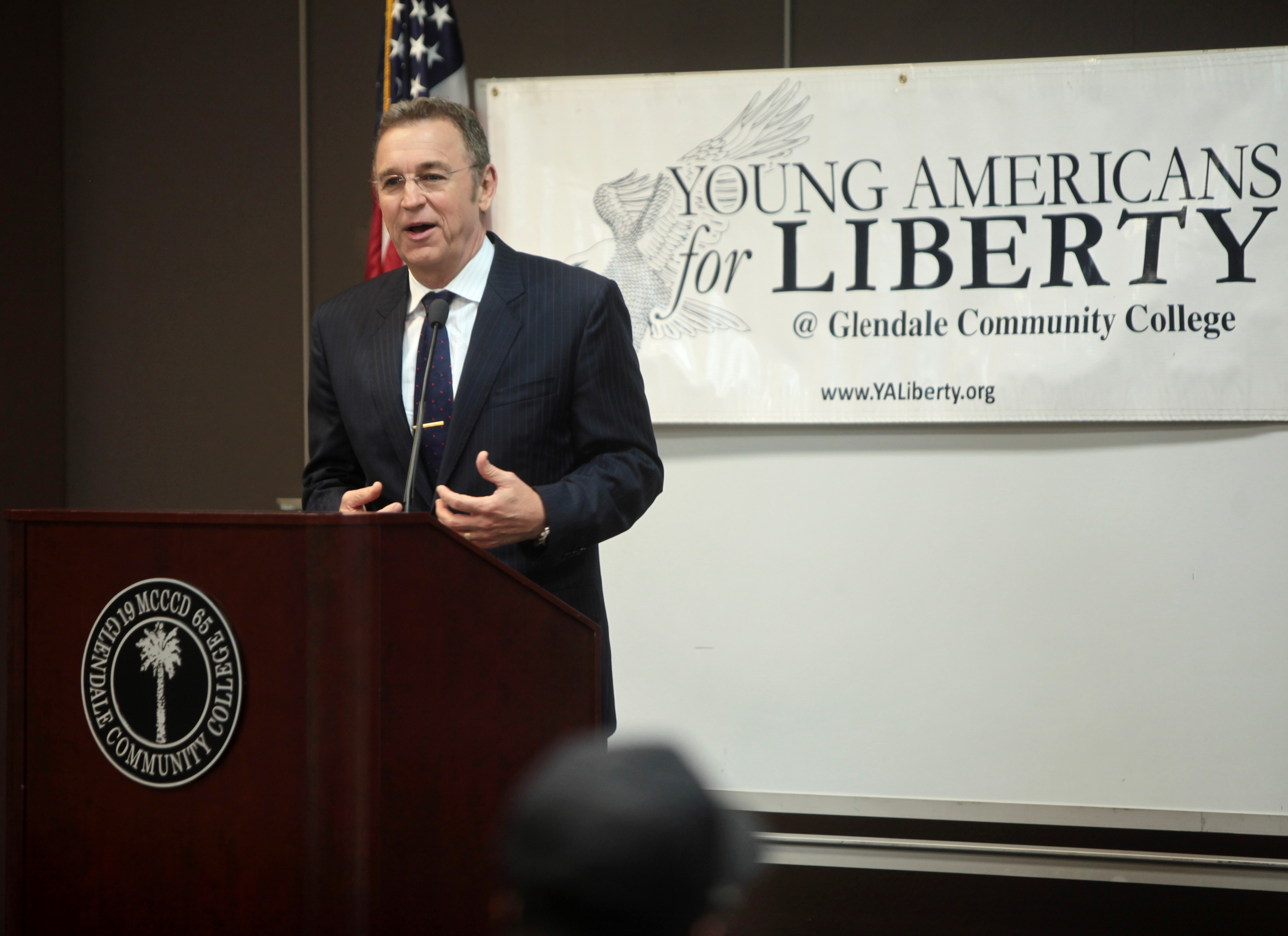 Member of the U.S. House of Representatives from Arizona's 5th district & 1st district; Chair of the Arizona Republican Party